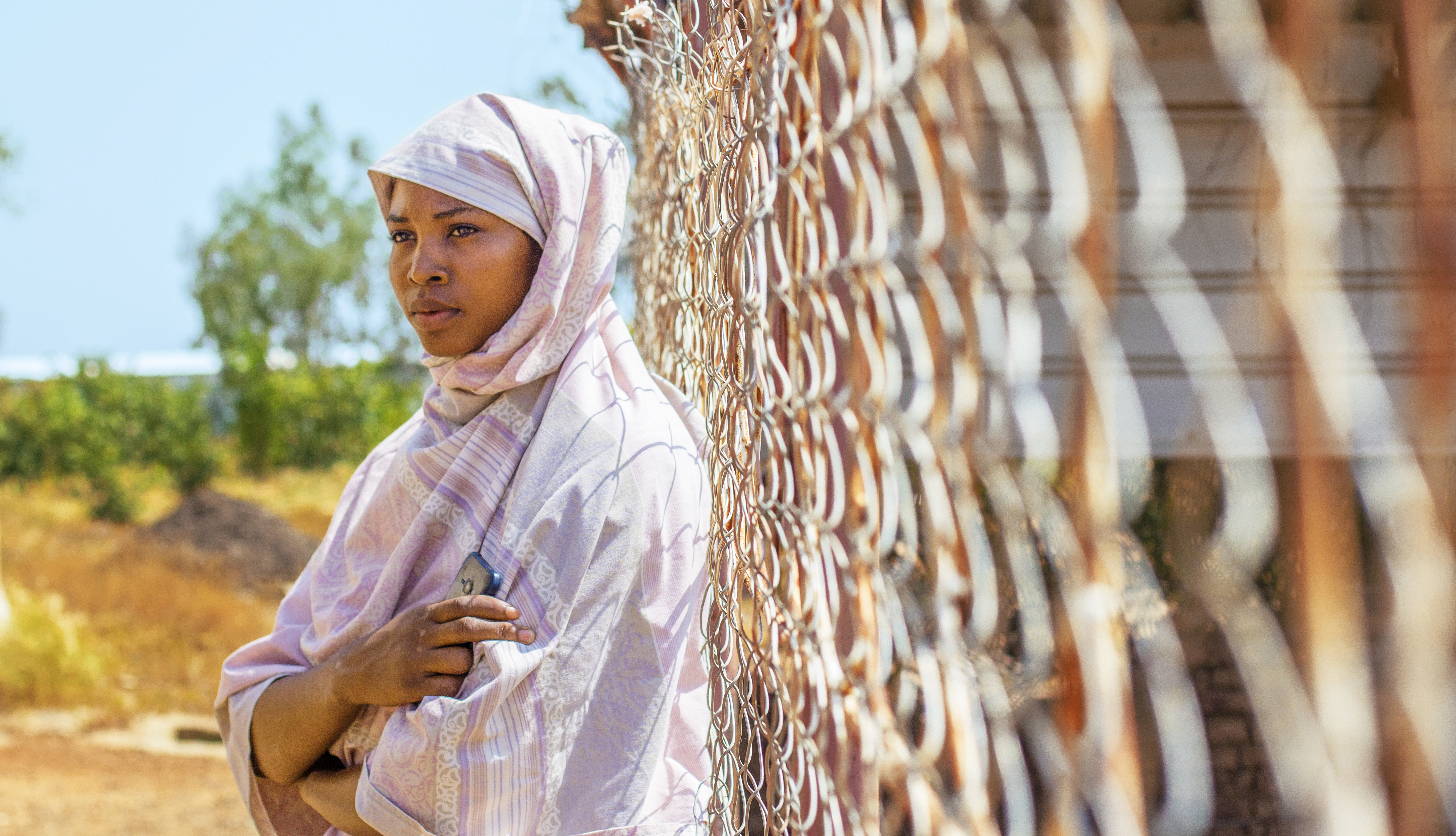 Hopefully, to get into the future with my little phone, which is my little tool to go out and move into this big world.. SUDAN This is an image with the theme "Africa on the Move or Transport" from: Sudan